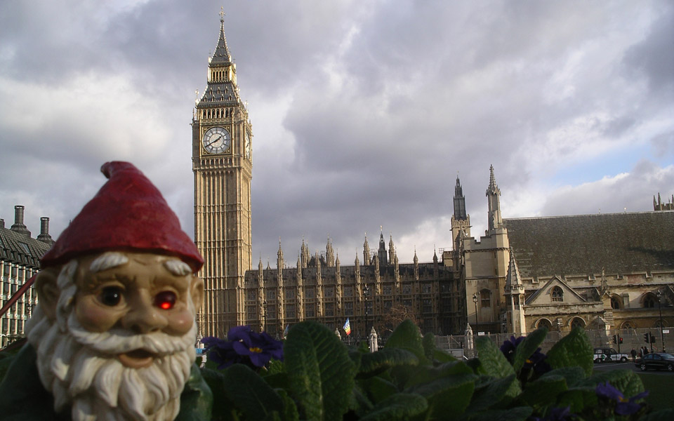 Woody the Gnome in London in front of the Westminister Clock Tower and Parliament.